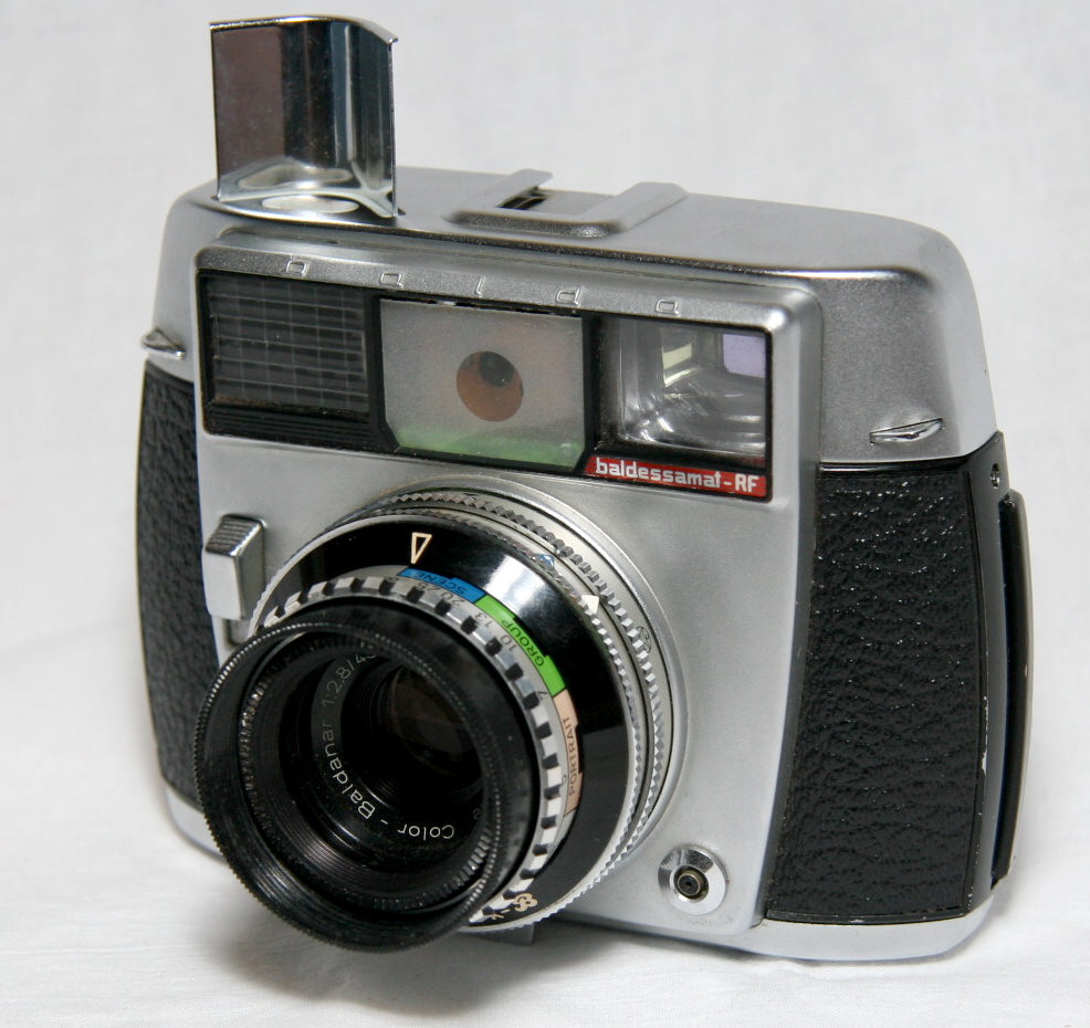 Balda Baldessamat RF 35 mm film camera.